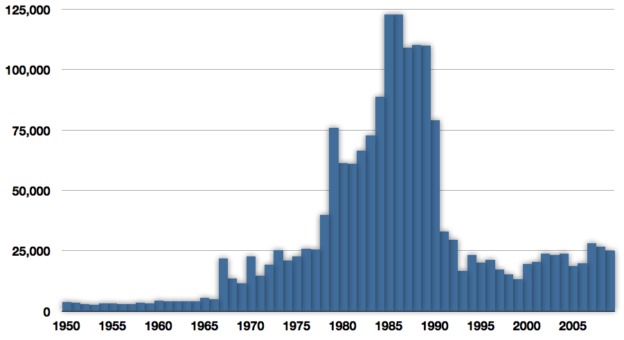 Fisheries recorded capture of Trachurus mediterraneus from 1950 to 2009. Data source FAO fisheries